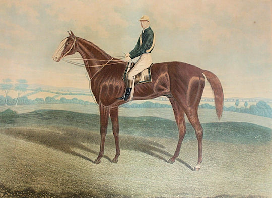 Painting of 1864 Epsom Derby winner Blair Athol by Charles Wood & Son